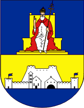 Hvar seal.